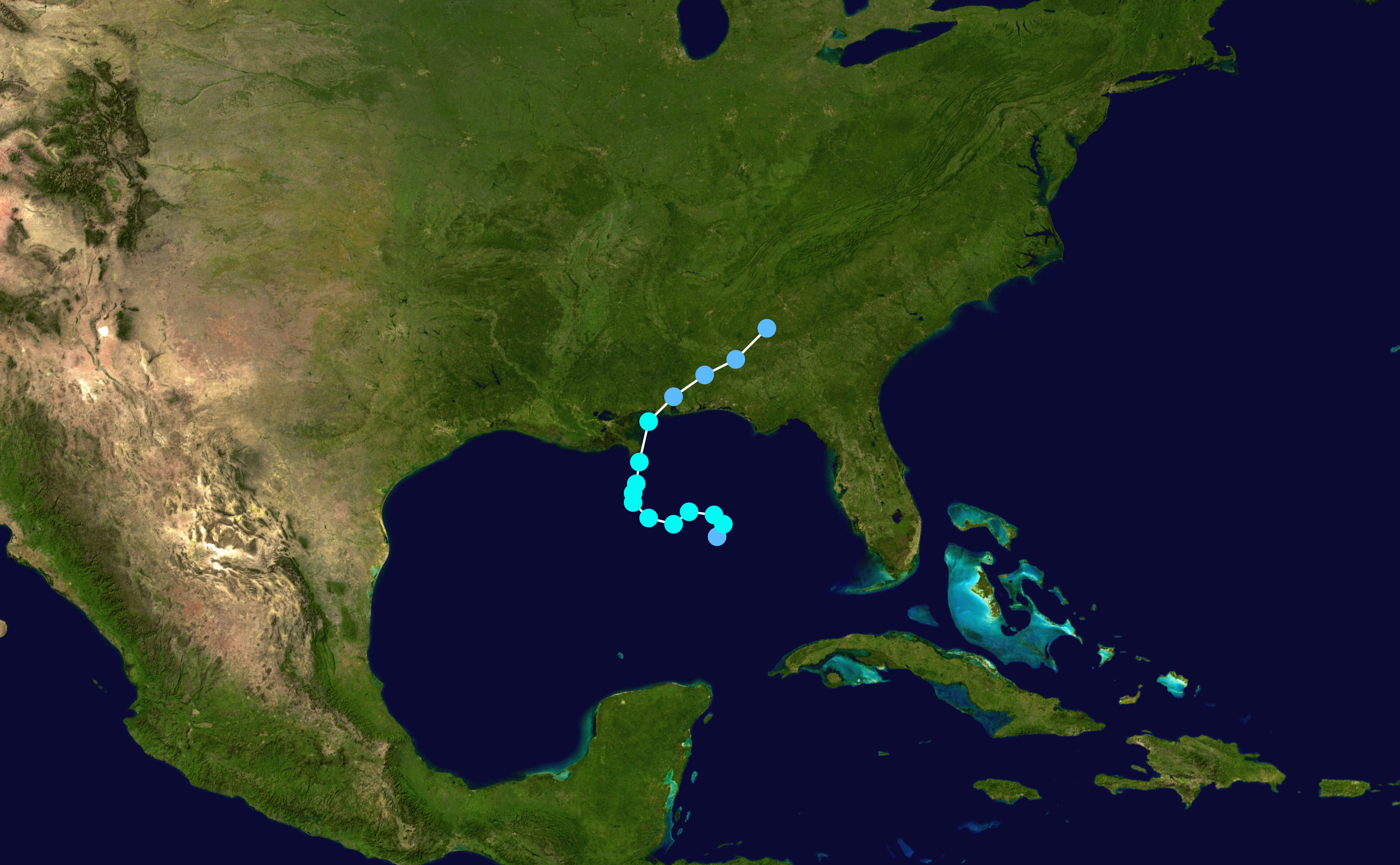 Track map of Tropical Storm Hanna of the 2002 Atlantic hurricane season. The points show the location of the storm at 6-hour intervals. The colour represents the storm's maximum sustained wind speeds as classified in the Saffir–Simpson scale (see below), and the shape of the data points represent the nature of the storm, according to the legend below. Saffir–Simpson scale Tropical depression≤38 mph≤62 km/h Category 3111–129 mph178–208 km/h Tropical storm39–73 mph63–118 km/h Category 4130–156 mph209–251 km/h Category 174–95 mph119–153 km/h Category 5≥157 mph≥252 km/h Category 296–110 mph154–177 km/h Unknown Storm type Tropical cyclone Subtropical cyclone Extratropical cyclone / Remnant low / Tropical disturbance / Monsoon depression